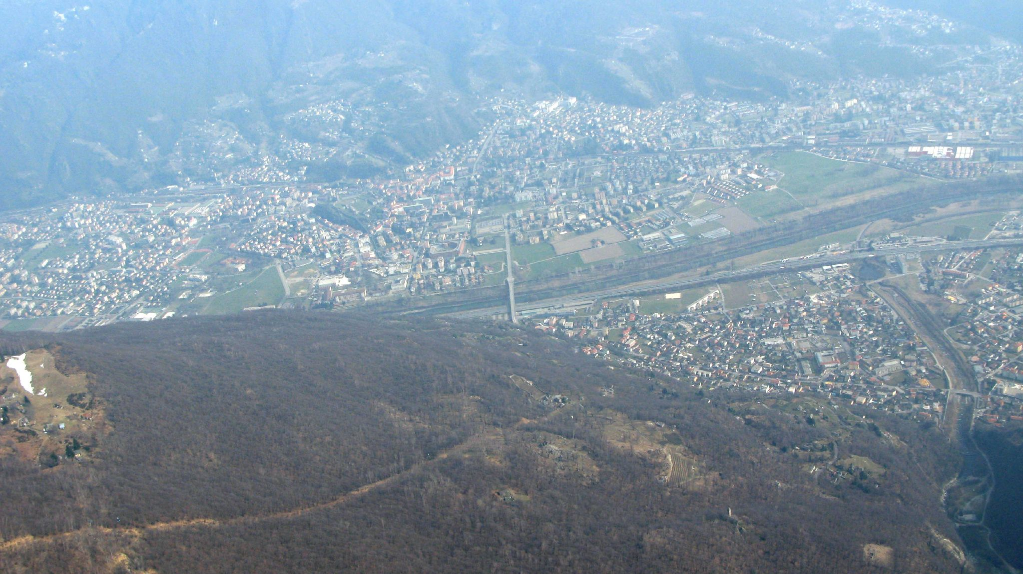 View of Monte Carasso (foreground right), Bellinzona (background left) and Giubiasco in Canton Ticino, Switzerland